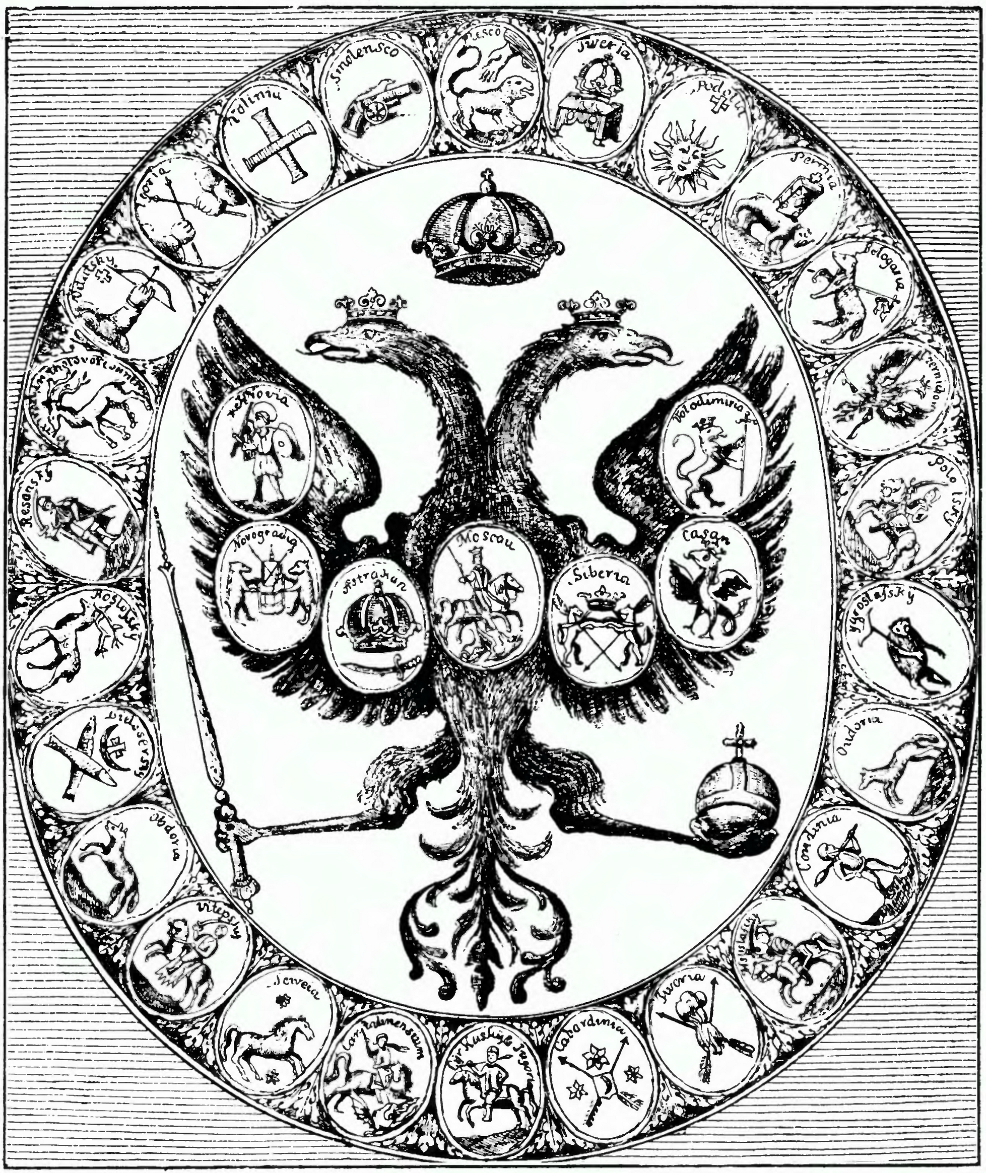 Russian coat of arms, 1699. From the diary of the Austrian diplomat Johann Korb.